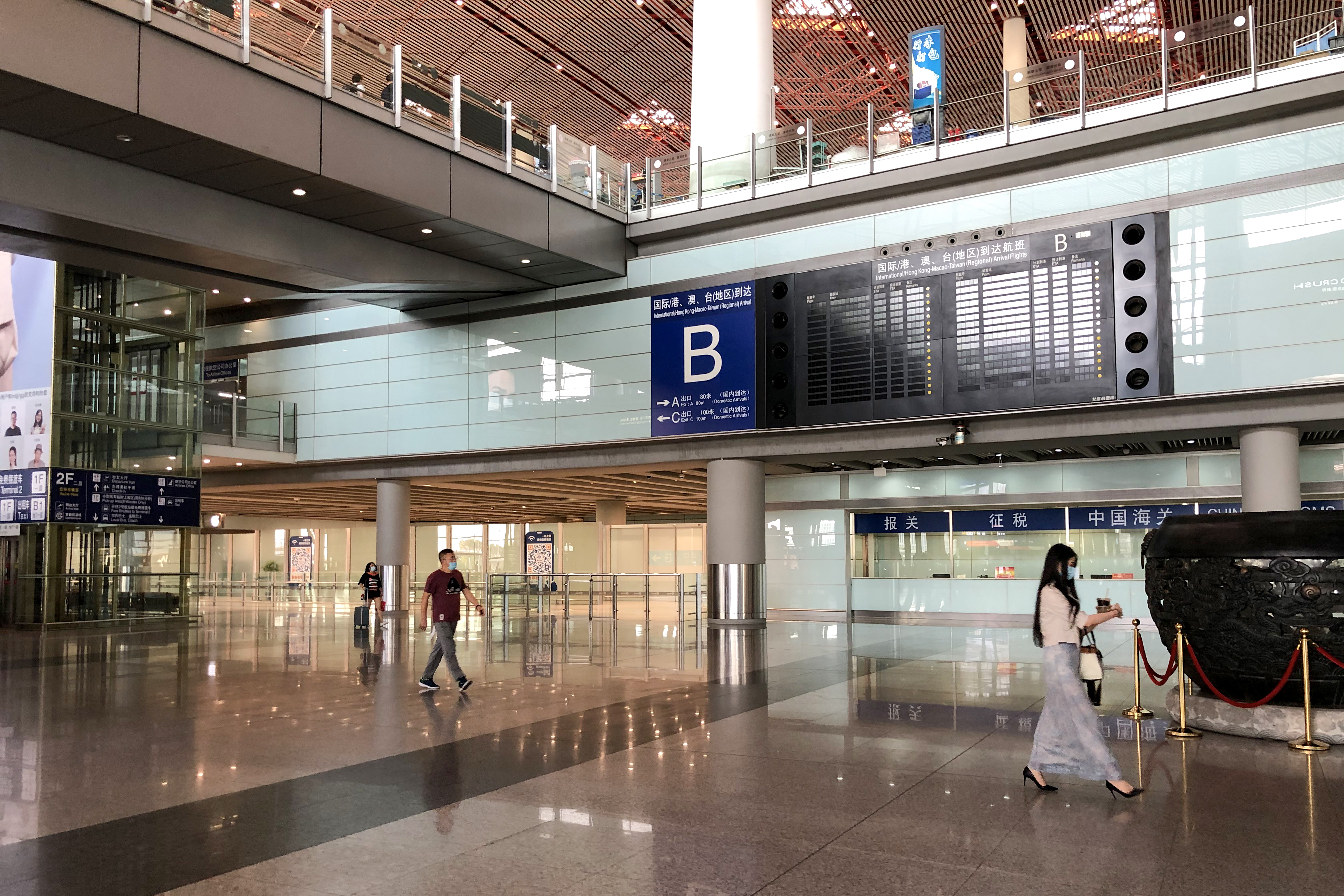 Even the flight information display system is empty for international flights.